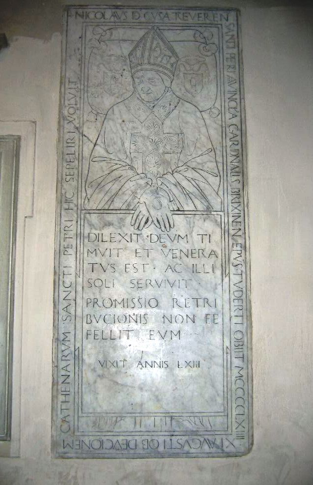 Rom, Titelkirche San Pietro in Vincoli, Grab des Nicolaus Cusanus